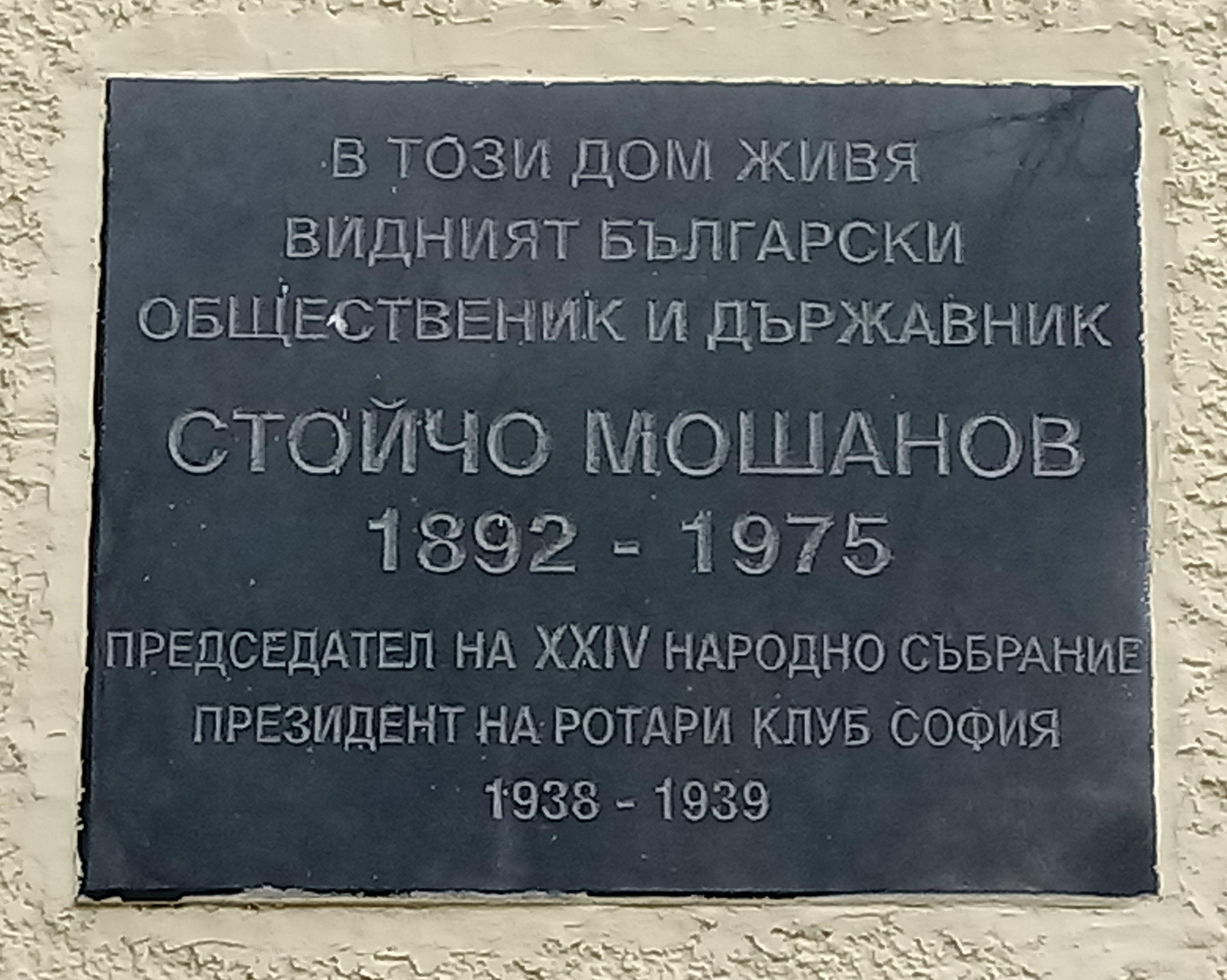 Stoycho Moshanov memorial plaque, 23 Tsarigradsko Chausee Blvd., Sofia